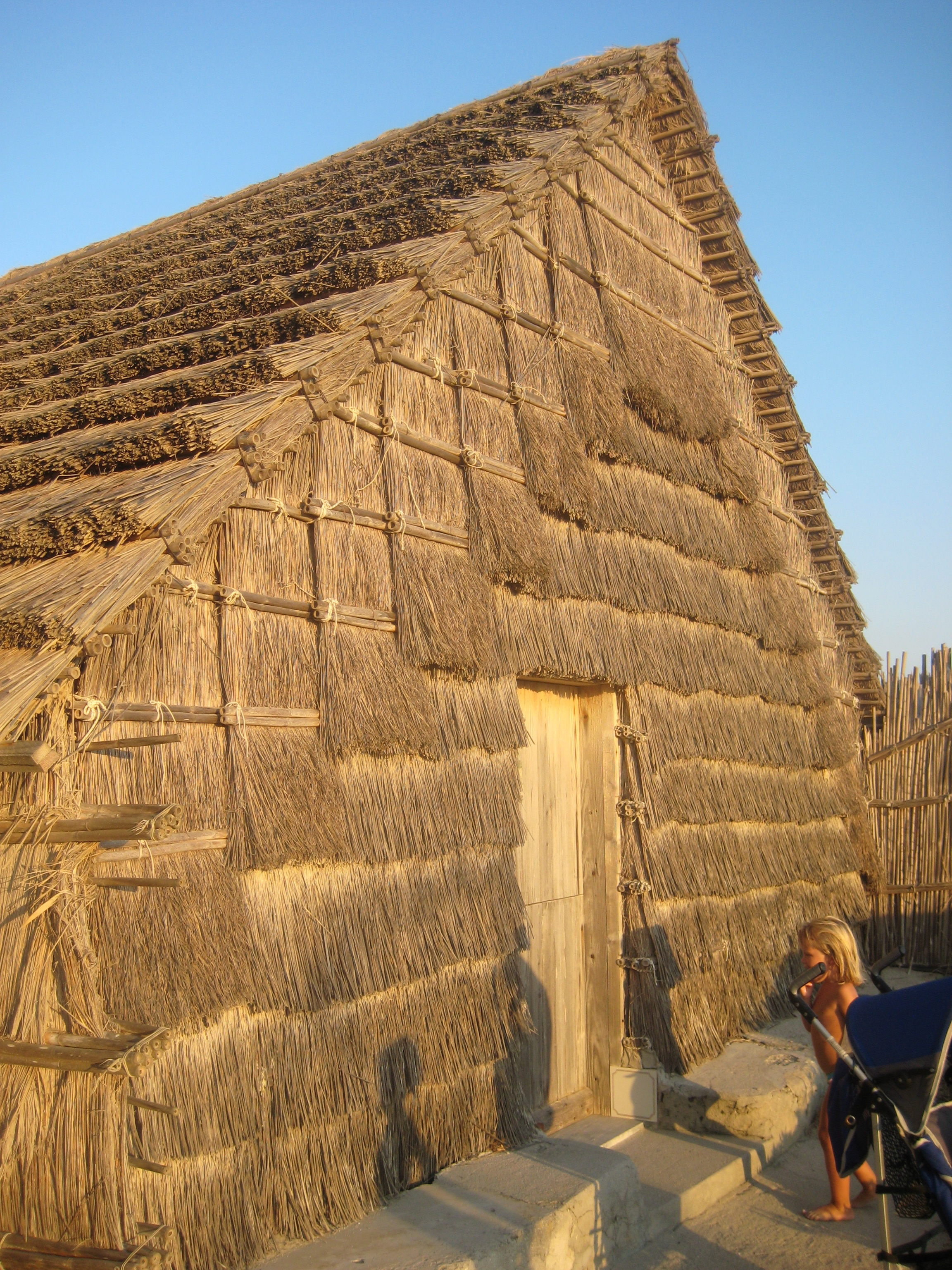 fisherman hut in Sardinia made of reeds and straw